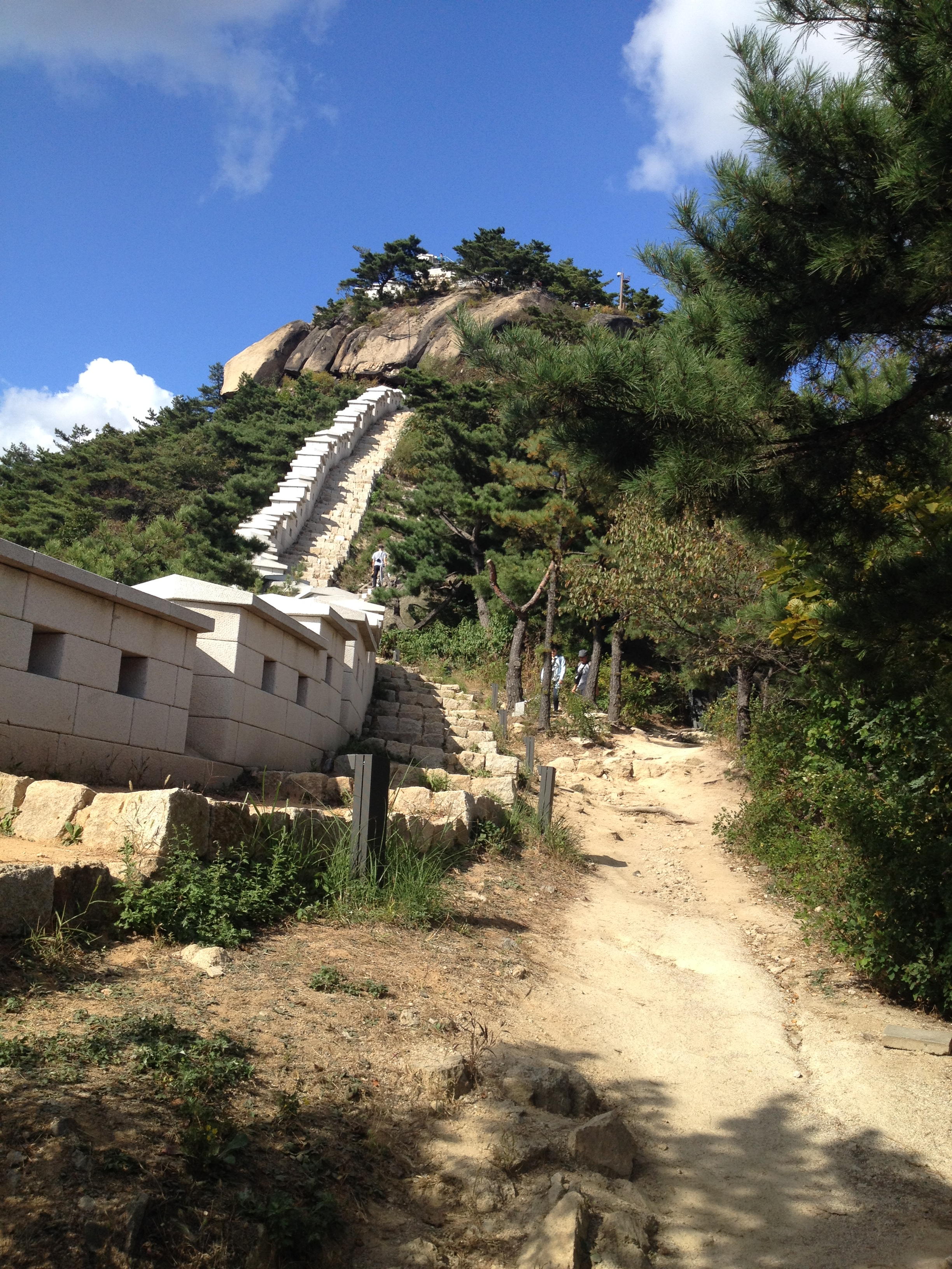 The hilltop of the Inwangsan Mountain in Seoul, Korea